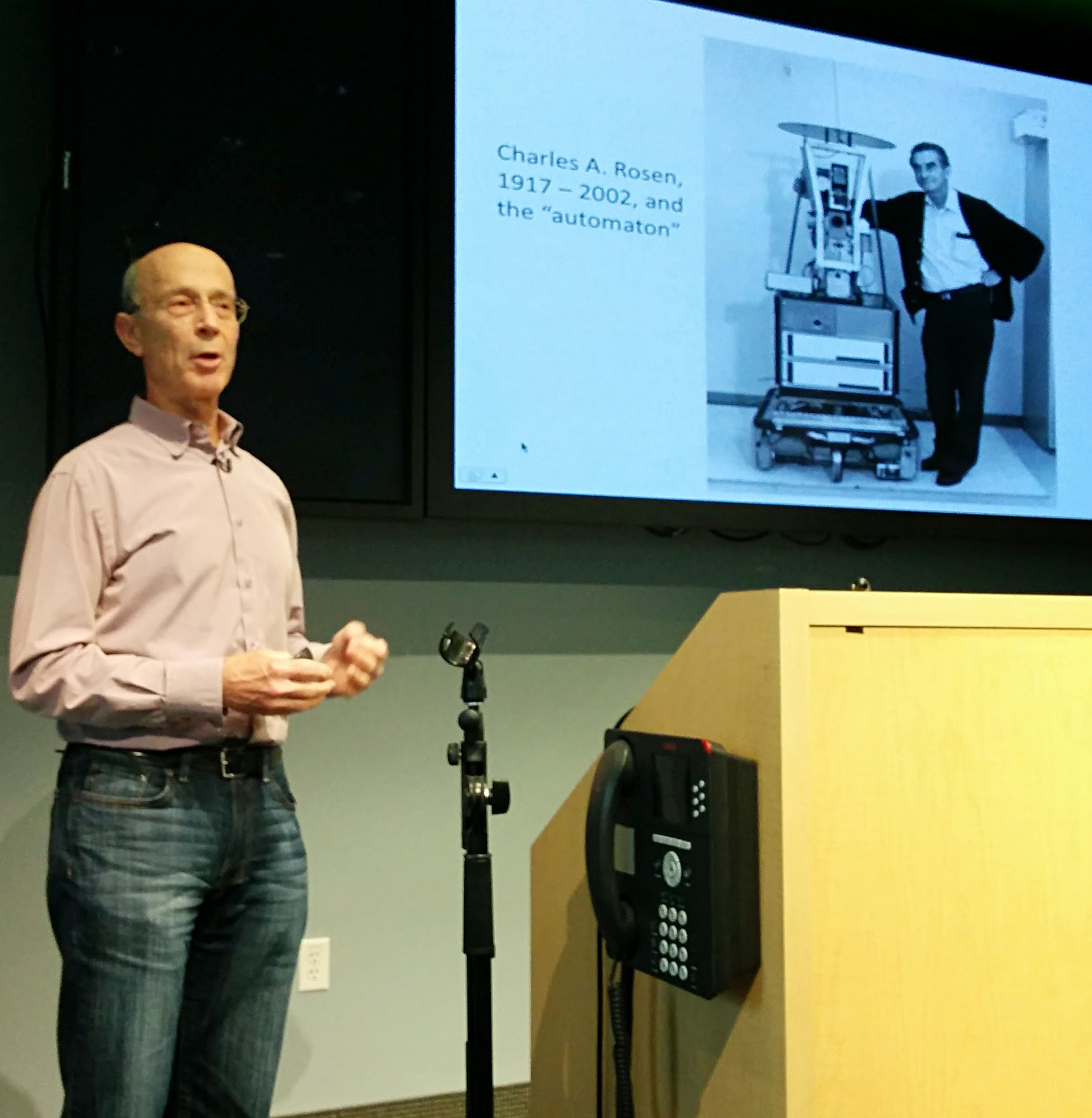 Peter Hart, giving a talk on Shakey's 50th anniversary, at Google in February 2015